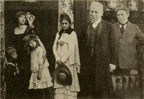 Still shot from 1914 silent film, Should A Woman Divorce?